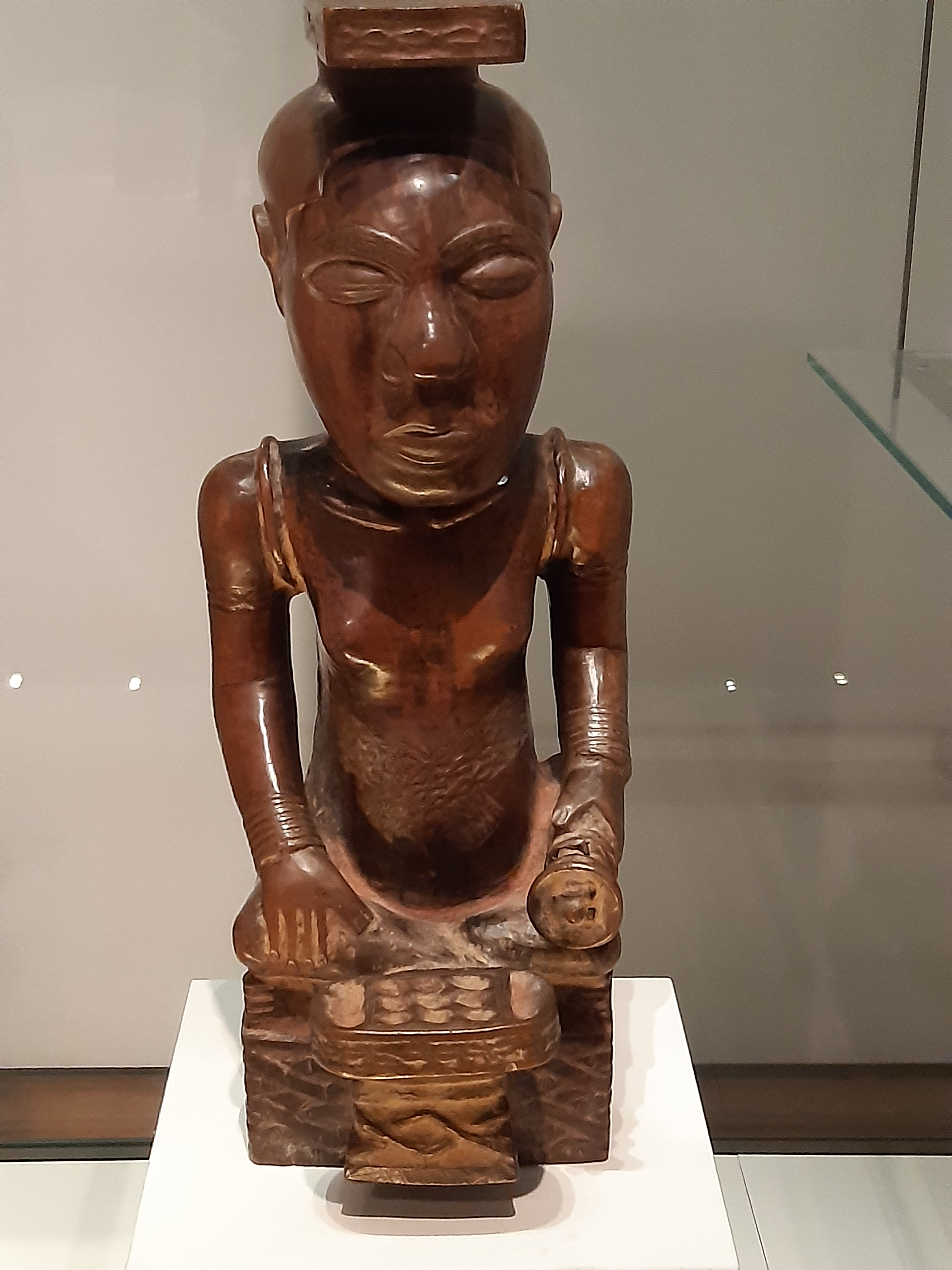 Ndop Statue in the British. Collected by Emile Torday